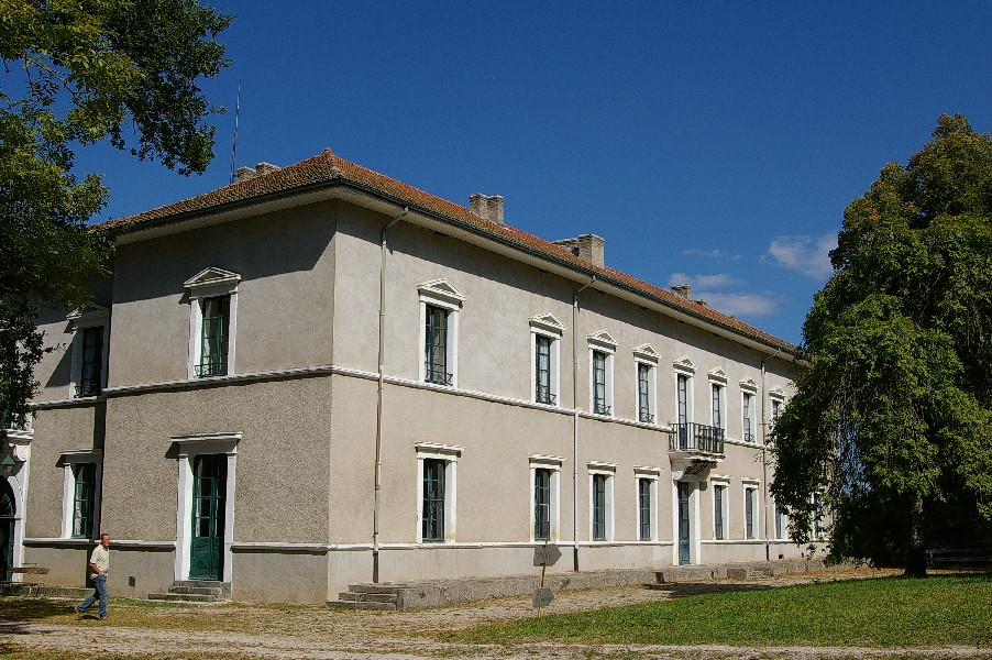 a global view on maubourg castle